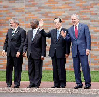 Leaders of Major Economies pose for photos in Tōyako Town, Abuta District, Hokkaidō on July 9, 2008.